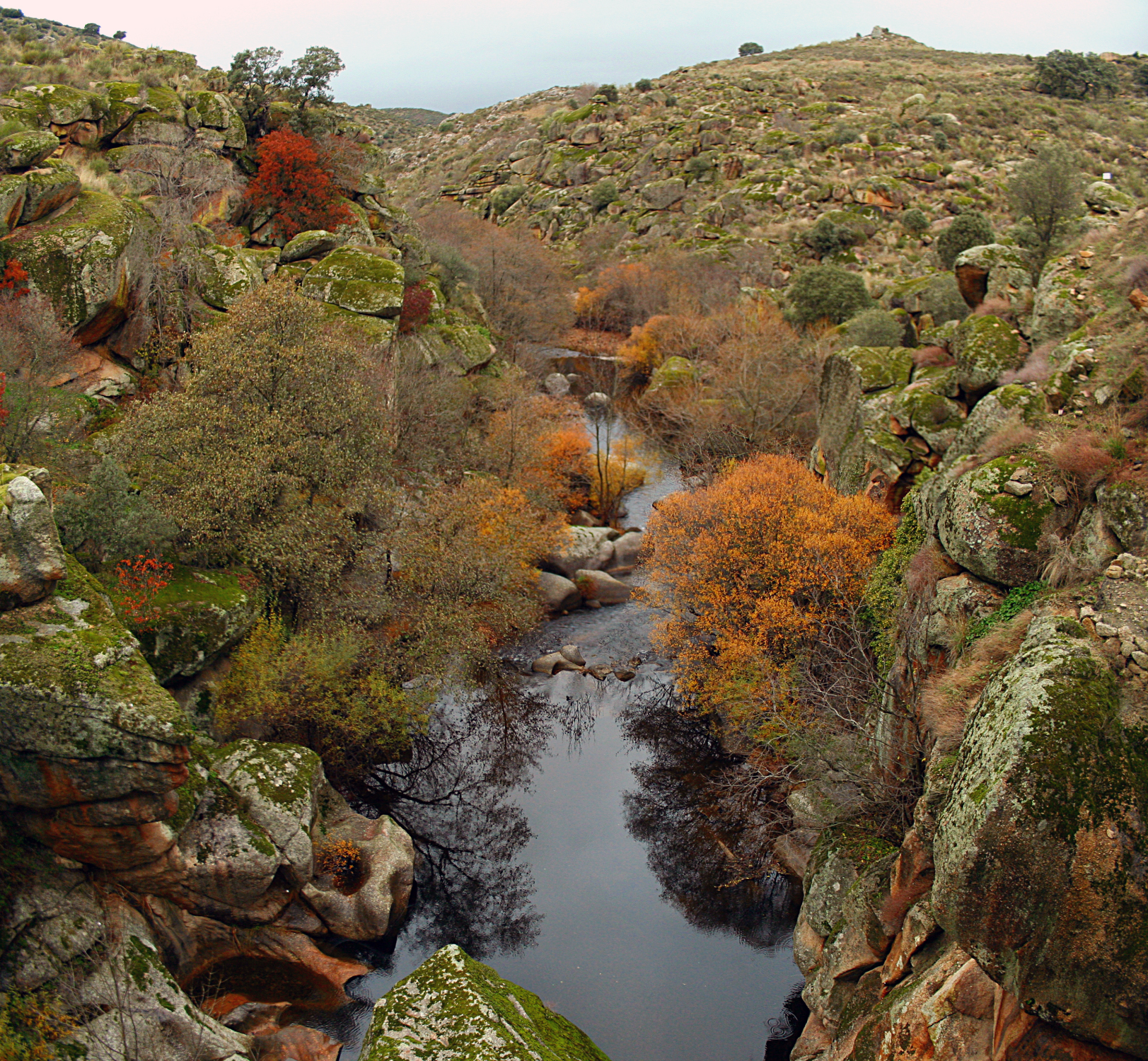 Ibor River, Cáceres, Extremadura, Spain